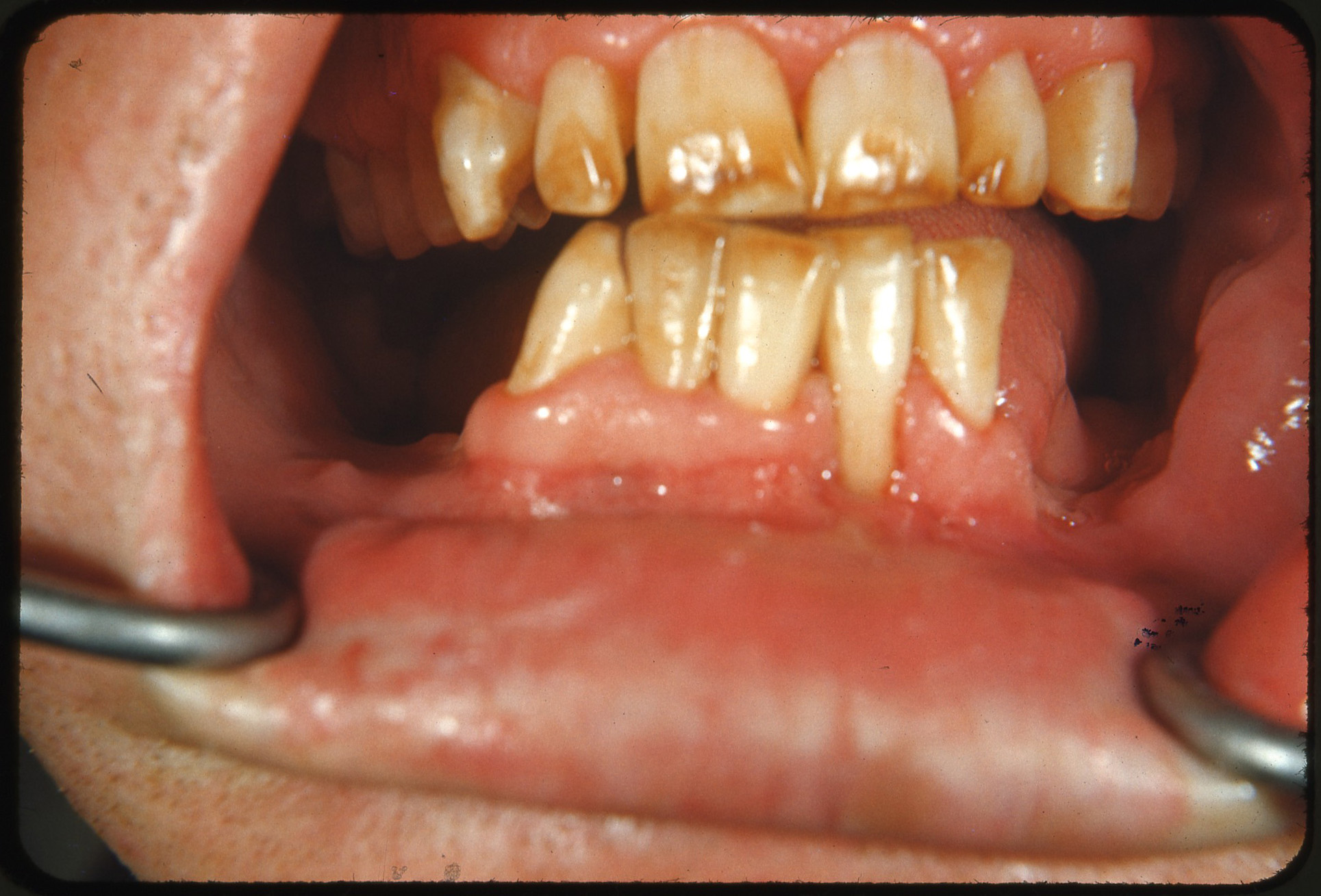 Mottled enamel due to fluorine. Patient lives in Deming, New Mexico, which is an endemic fluorine area. [Clinical photo, fluorosis, dentistry.]